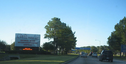 George Bush Intercontinental Airport Main Entrance